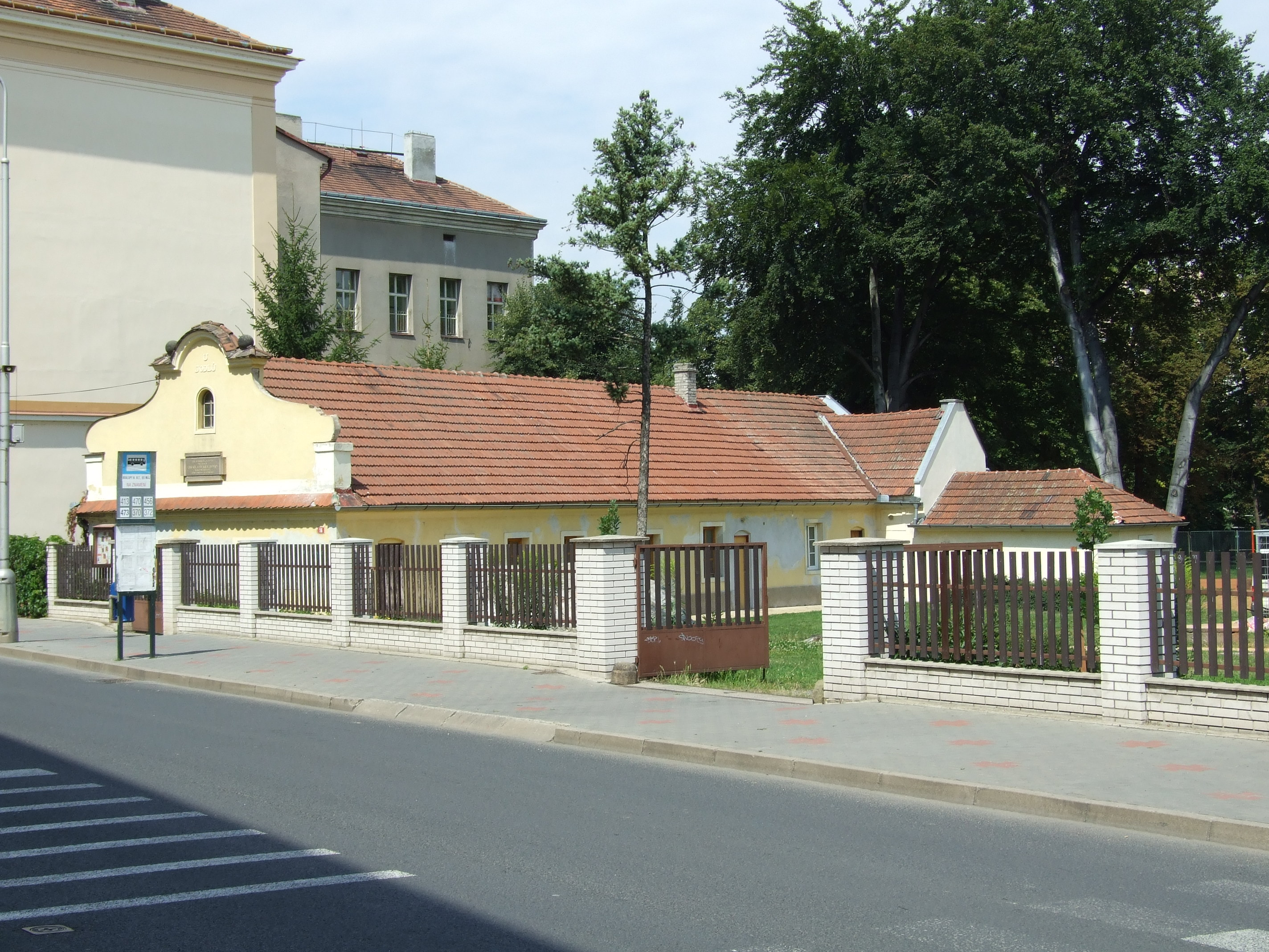 Historic house in Kralupy nad Vltavou